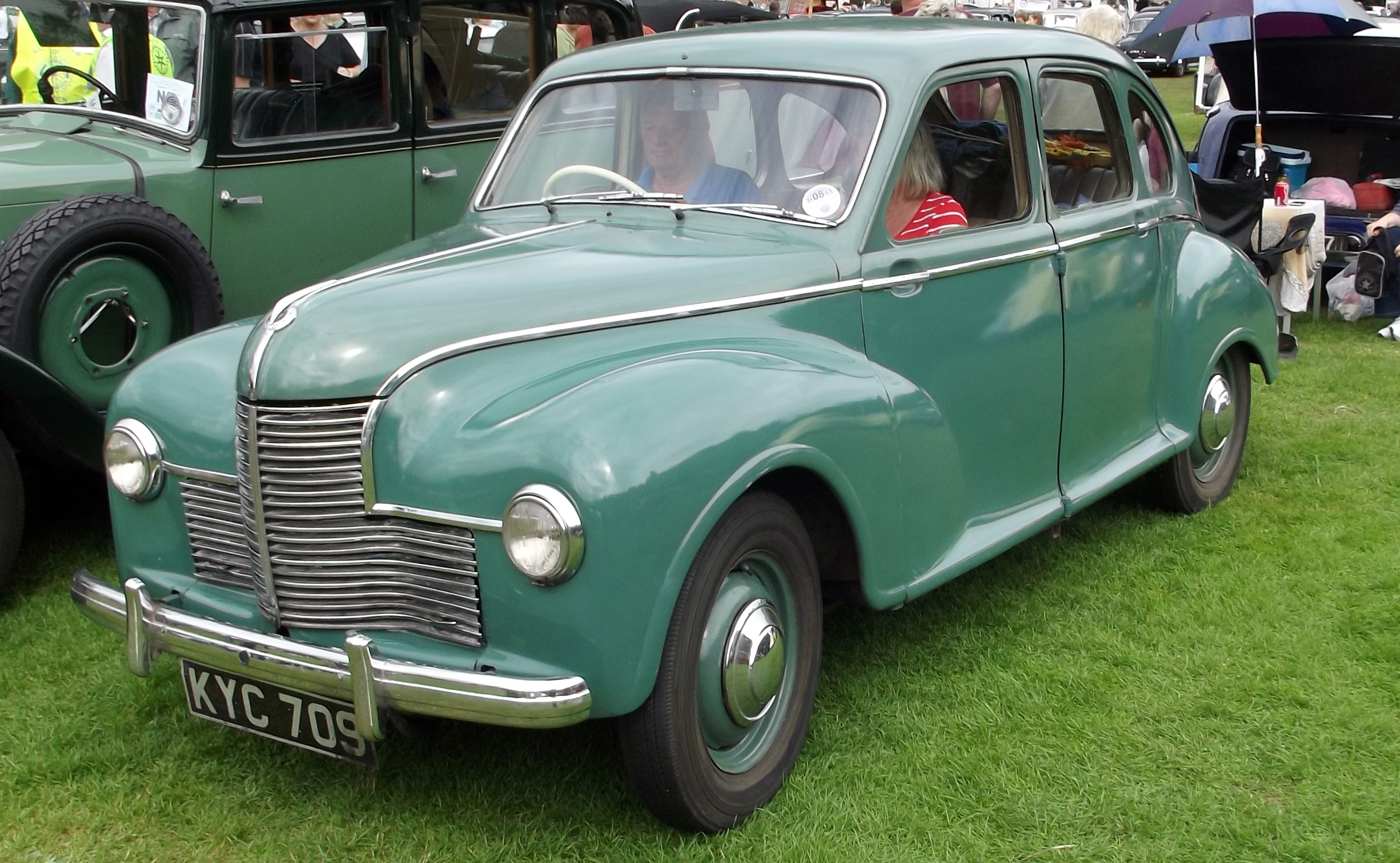 Jowett Javelin registered February 1949